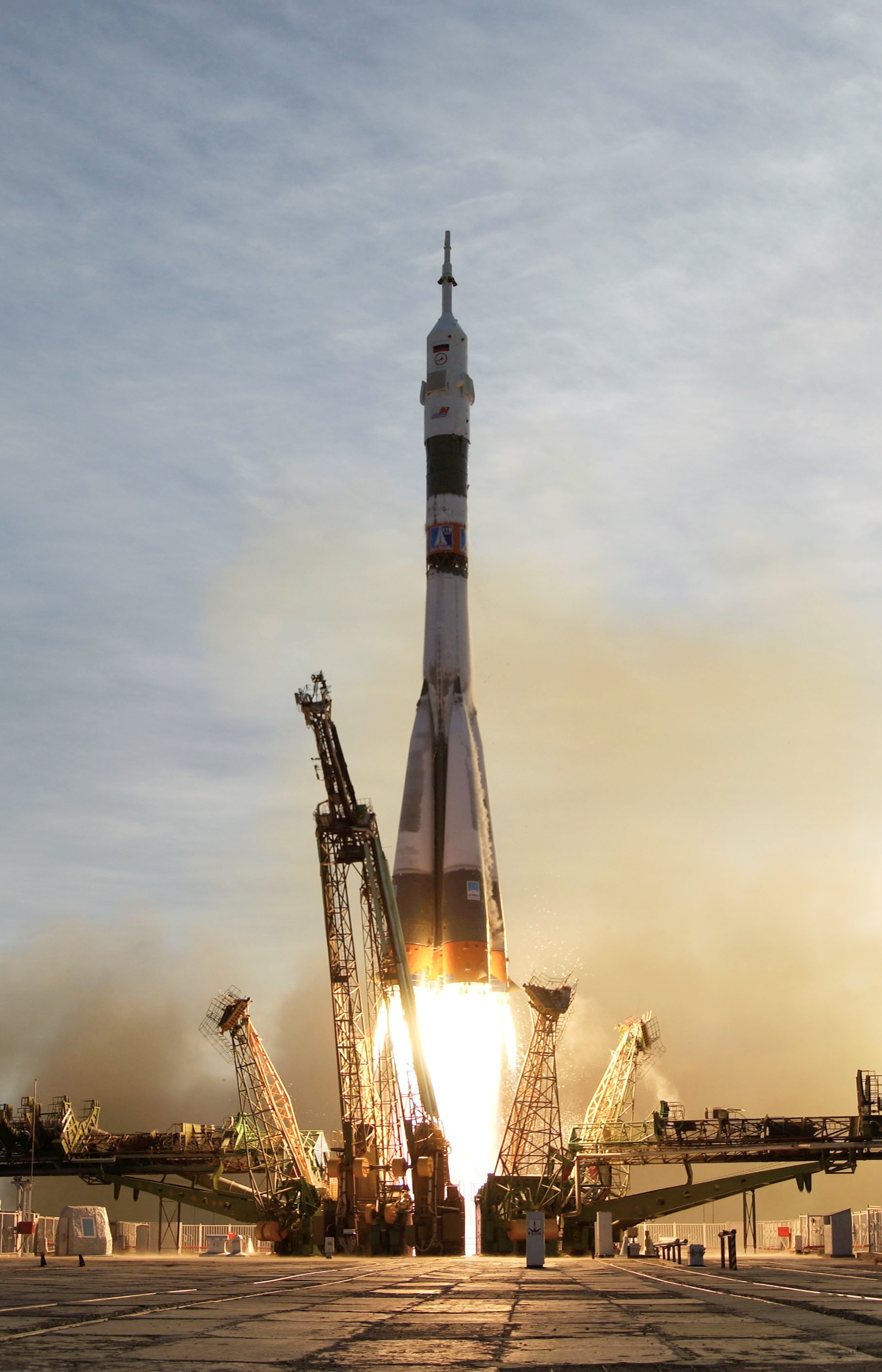 The Soyuz TMA-5 spacecraft blasts off from the Baikonur Cosmodrome in Kazakhstan October 14, 2004, carrying astronaut Leroy Chiao, Expedition 10 commander and NASA International Space Station (ISS) science officer, cosmonaut Salizhan S. Sharipov, Russia's Federal Space Agency flight engineer and Soyuz commander, and Russian Space Forces cosmonaut Yuri Shargin to the ISS. The crew will dock to the Station on October 16, and Chiao and Sharipov will replace the current Station crewmembers, cosmonaut Gennady I. Padalka, Expedition 9 commander, and astronaut Edward M. (Mike) Fincke, NASA ISS science officer and flight engineer, who will return to Earth October 24 with Shargin.